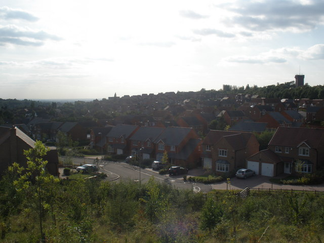 Brizlincote Valley September 2009 Briz valley 22 years after it was started. Now finished. The view is from the Stapenhill/Winshill border, to my back is the A511 & the Texaco garage.